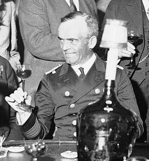 Extracted from the image above, using GIMP. Cropped to show Otto only.